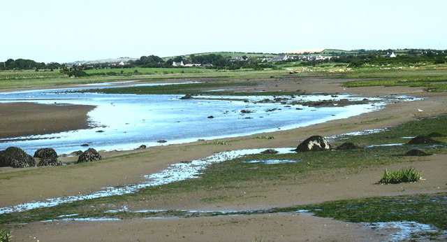 The estuary of Afon Alaw at low tide, near to Newlands Park, Isle of Anglesey/Sir Ynys Mon, Great Britain. The village of Llanfachreth can be seen in the distance.